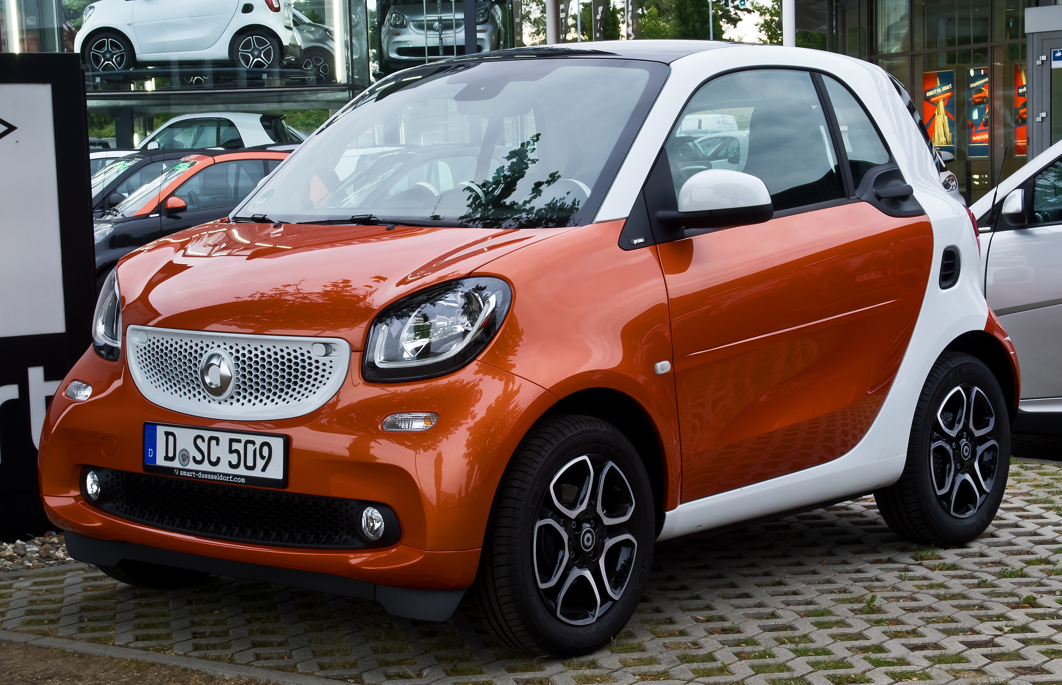 Smart Fortwo Coupé Prime (C 453)